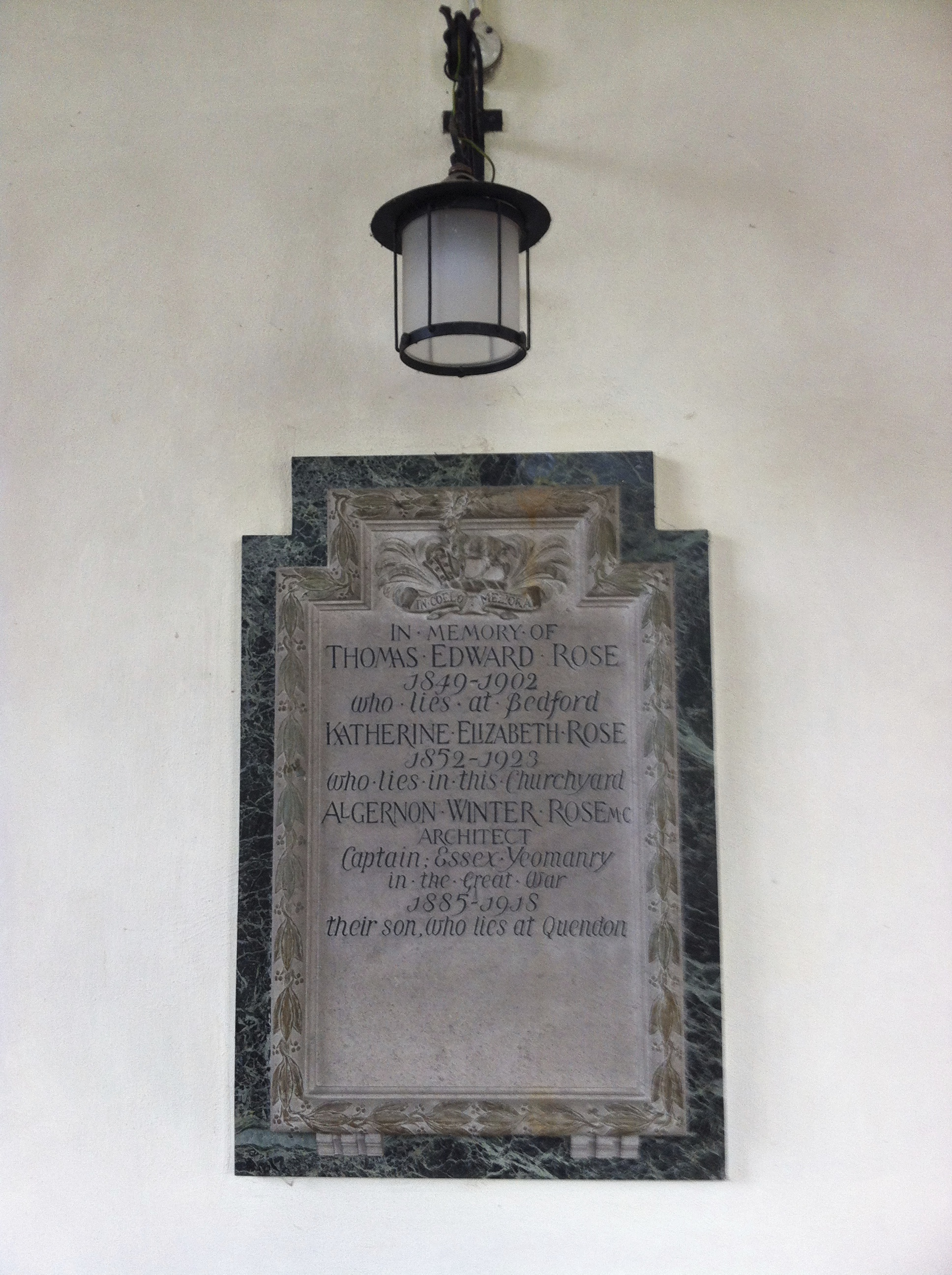 Memorial to Thomas Edward Rose (1849-1902), Katherine Elizabeth Rose (1852-1923) and Algernon Winter Rose (1885-1918)